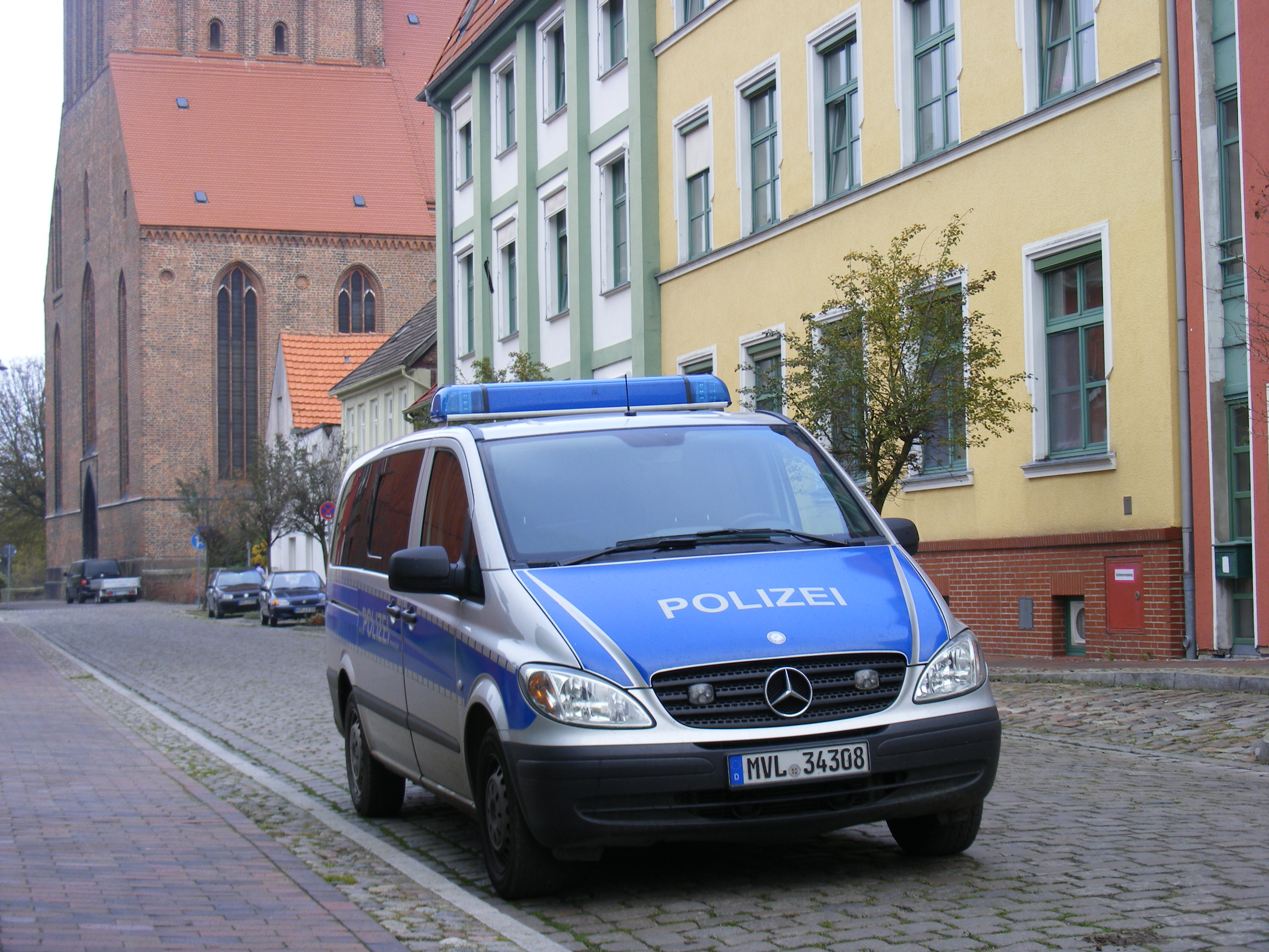 Blue is the new green (except perhaps in Bayern) MVL registration for Mecklenburg-Vorpommern Landesregierung (or Landtag) No second set of letters, 5-figure number.